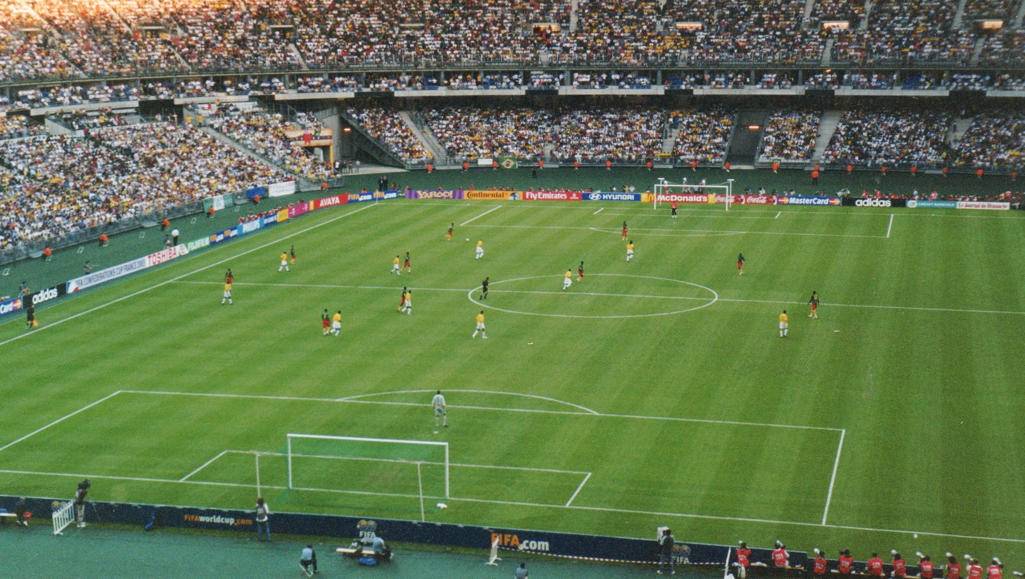 2003 FIFA Confederations Cup Brazil vs Cameroon